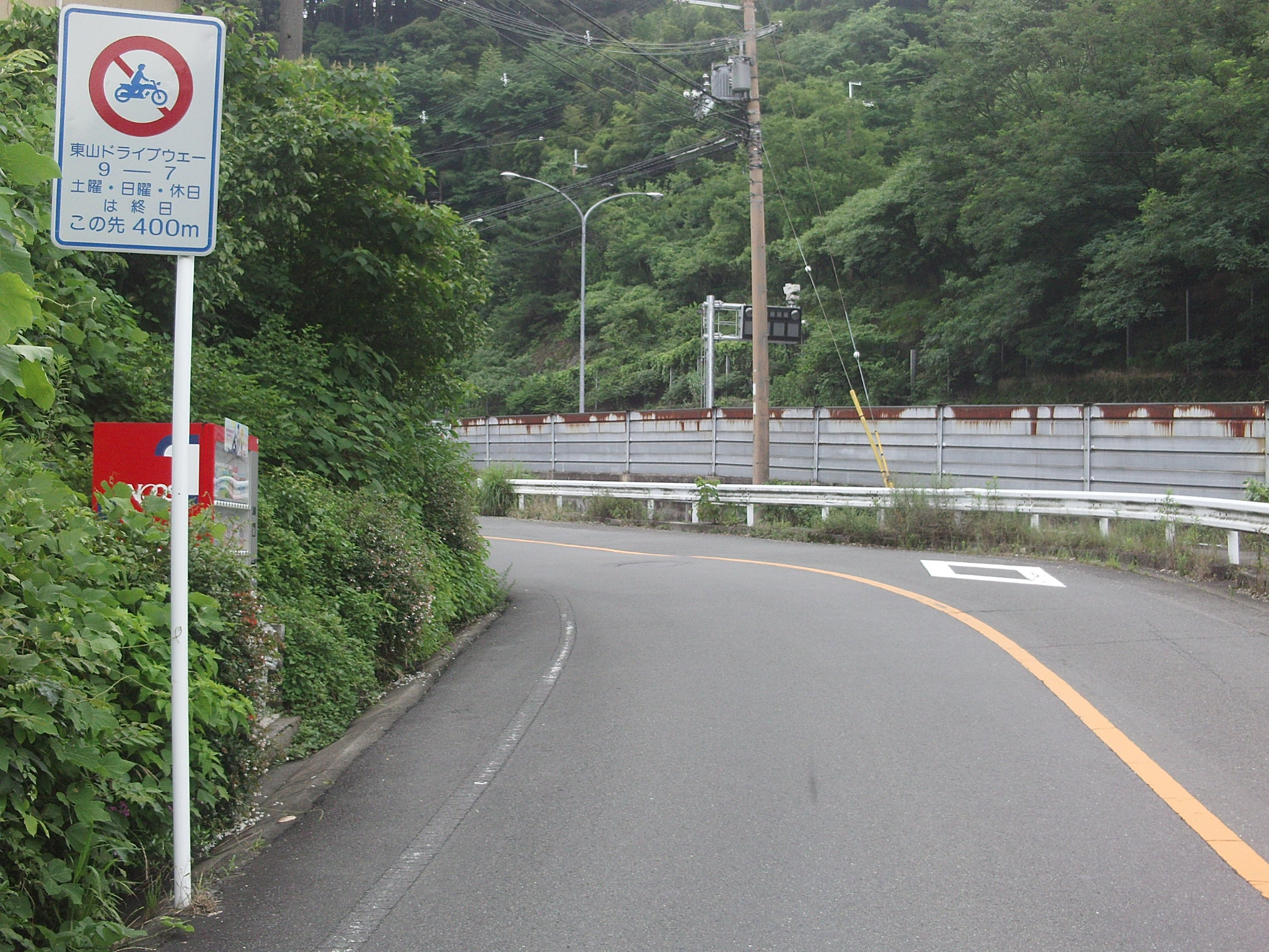 Higashiyama driveway in Imagumano Amidagaminecho, Higashiyama-ku, Kyoto city, Kyoto.